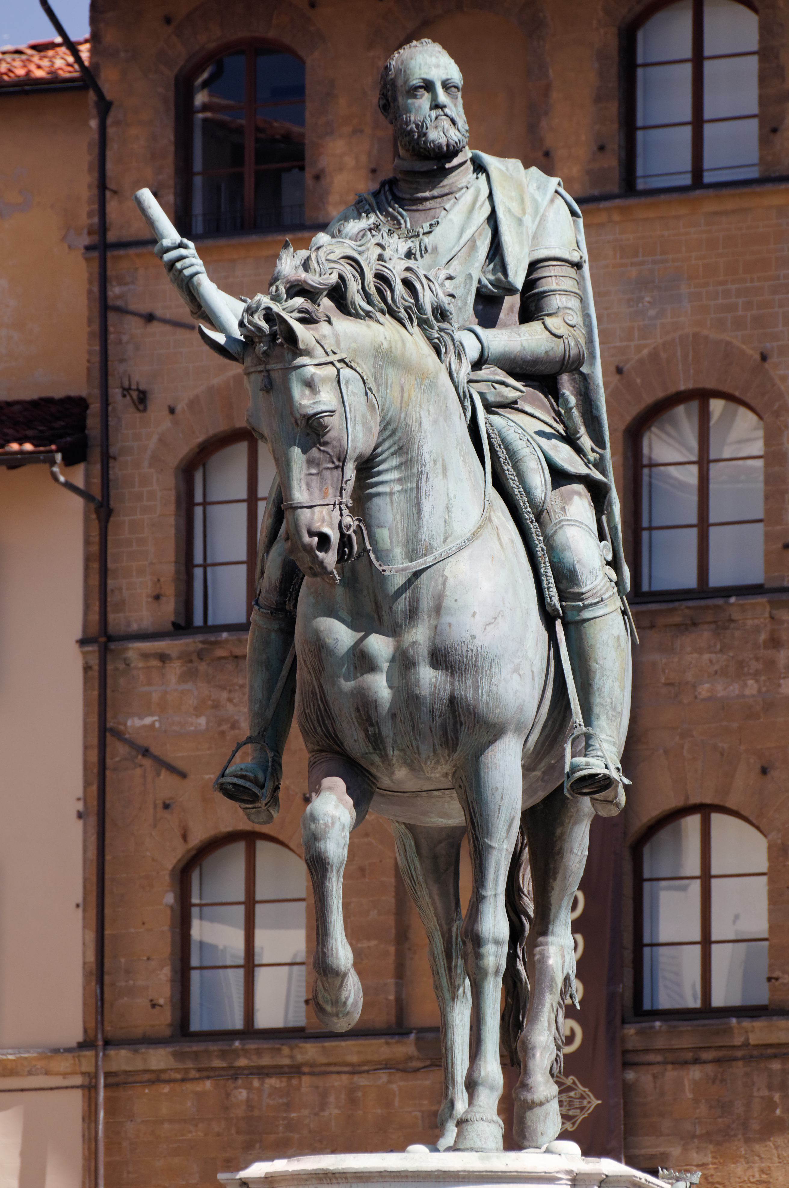 Equestrian portrait of Cosimo I (1519-1574), Italian